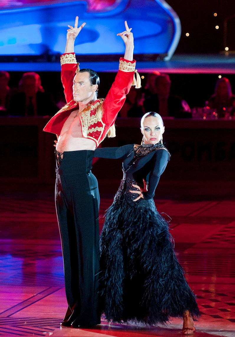 Sergey Surkov and Melia are dancing paso doble